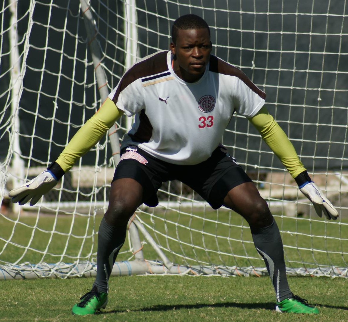 Photo : Murat Özgen